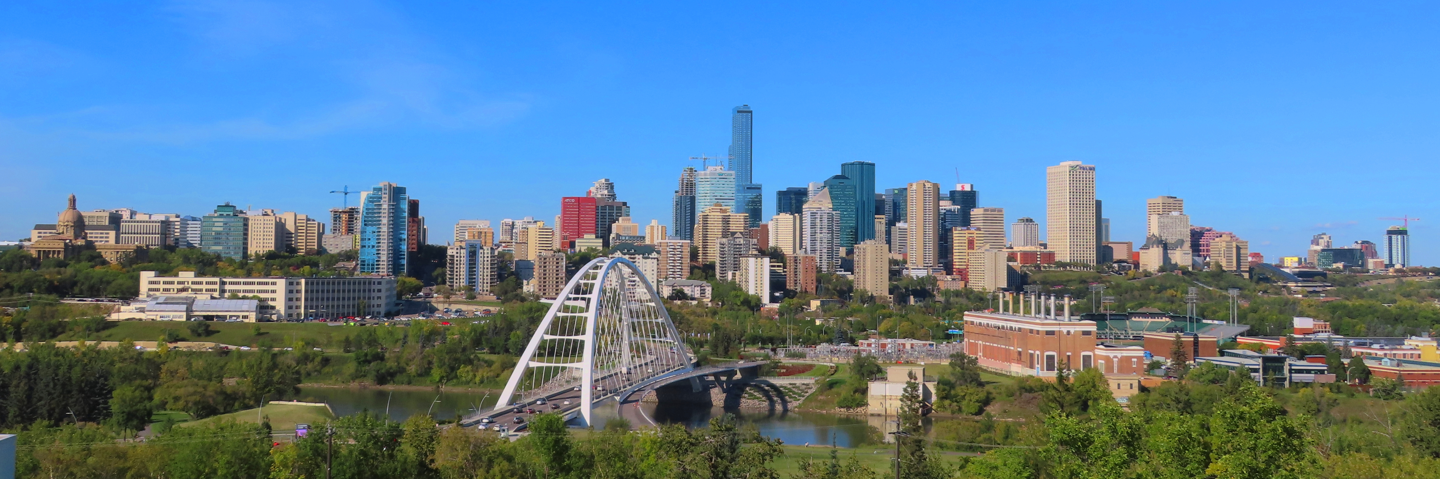 Skyline of Edmonton, Alberta, taken with a Canon point-and-shoot from the new lookout at 106th Street and Saskatchewan Drive. The aspen leaves are just beginning to turn.